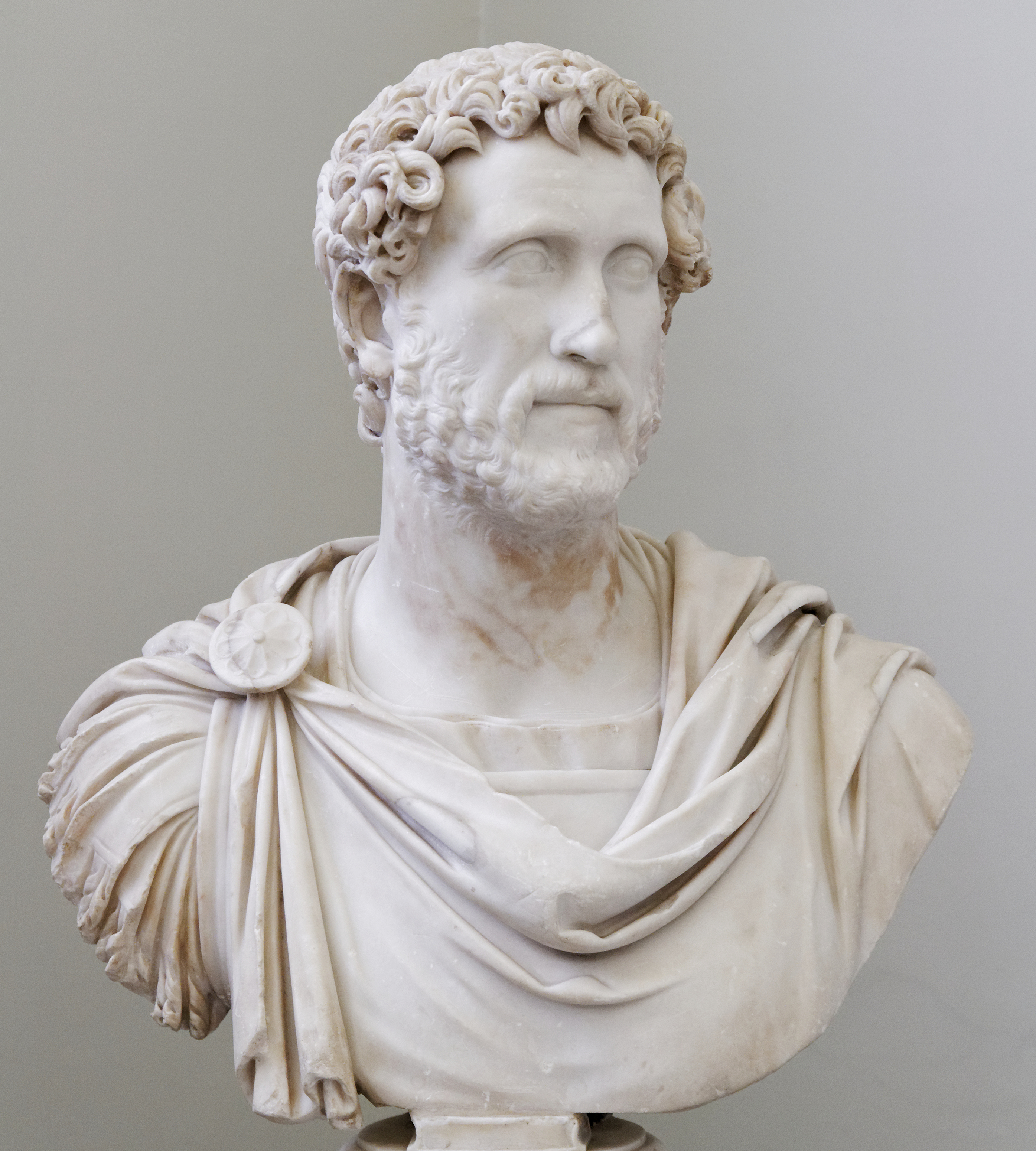 Portrait of Antoninus Pius (86–165 AD), emperor